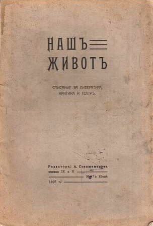 Frontpage Magazine Nash Jivot Bulgaria 1907